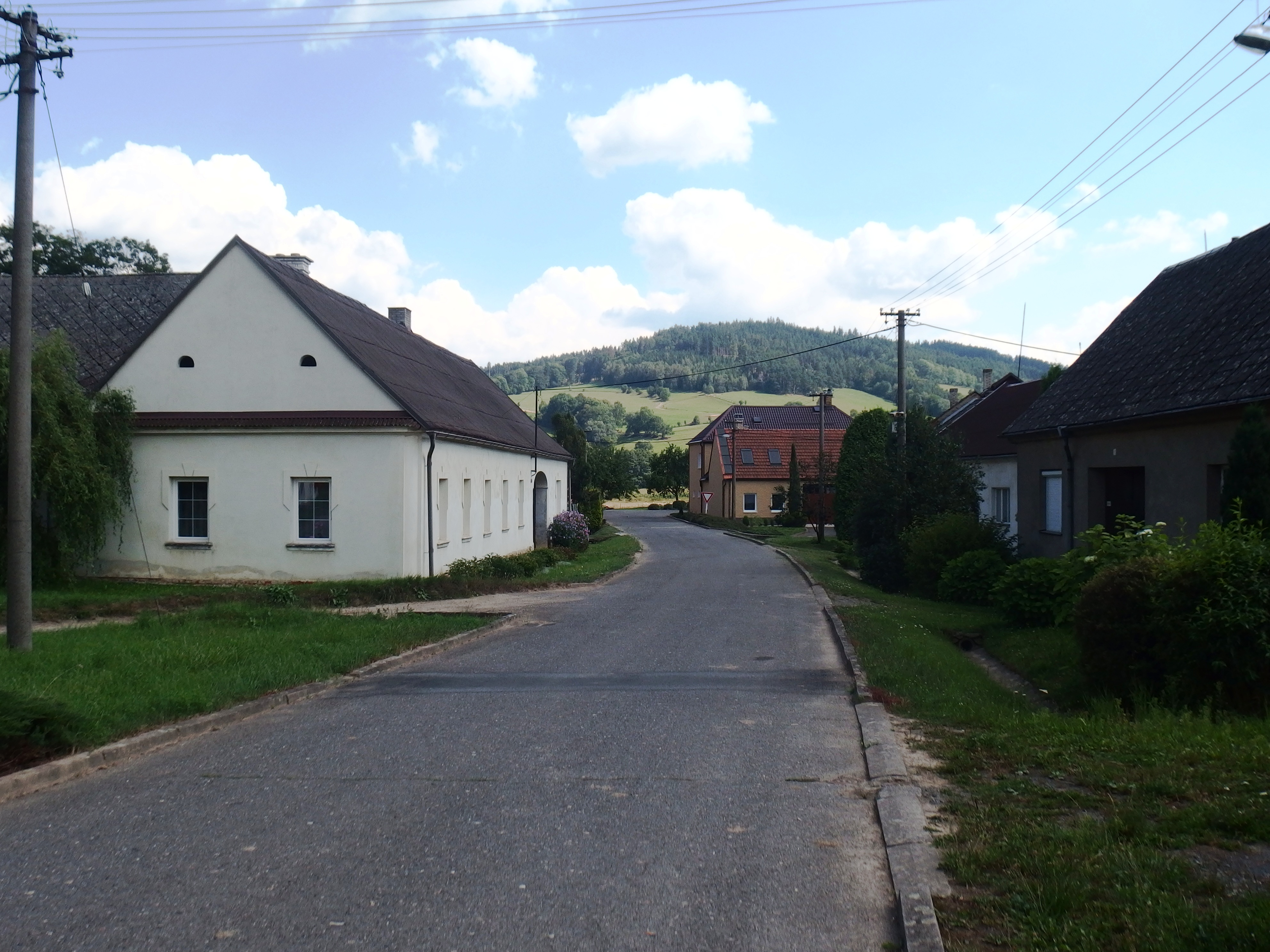 Městečko Trnávka, Svitavy District, Czech Republic, part Petrůvka.